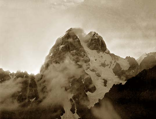 Caucasian photographs by Vittorio Sella. 1889–1890.